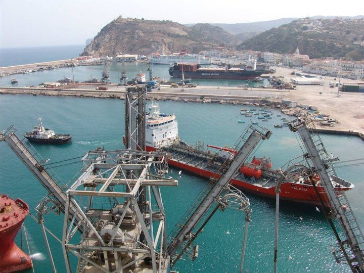 port de ghazaouet